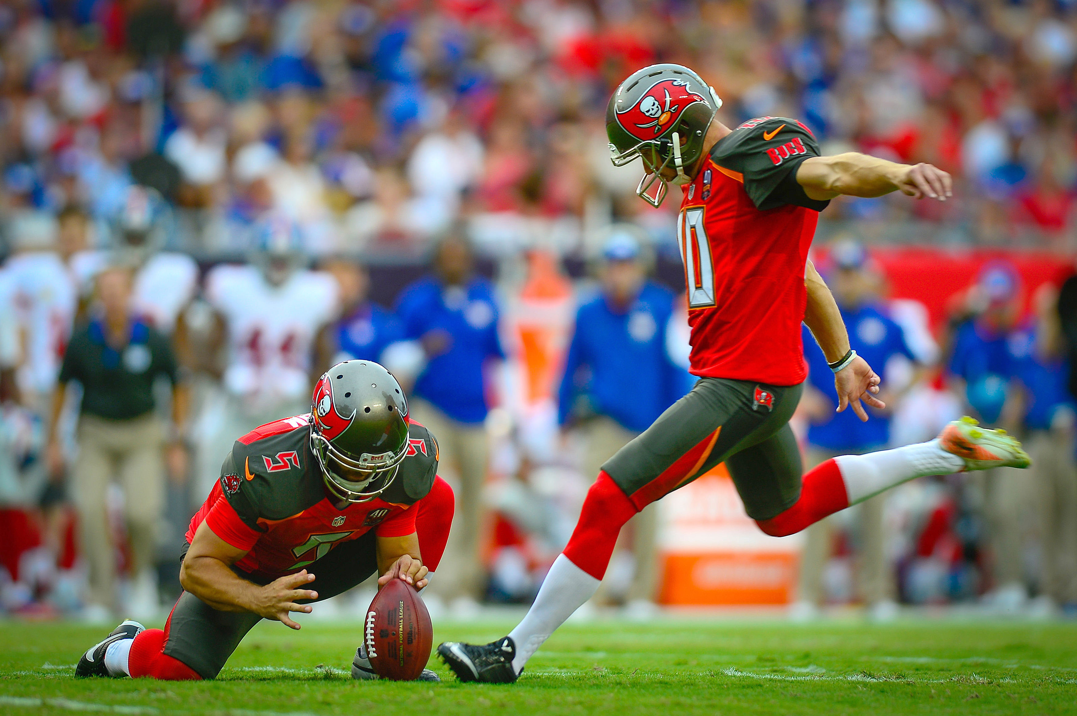 Connor Barth, a placekicker for the Tampa Bay Buccaneers, prepares to kick a field goal during the first quarter of the Bucs v. New York Giants National Football League military appreciation game at Raymond James Stadium in Tampa, Fla., Nov. 8, 2015. Military members from the Tampa Bay area were invited to a USO-sponsored pregame tailgate and given front row tickets to the game.